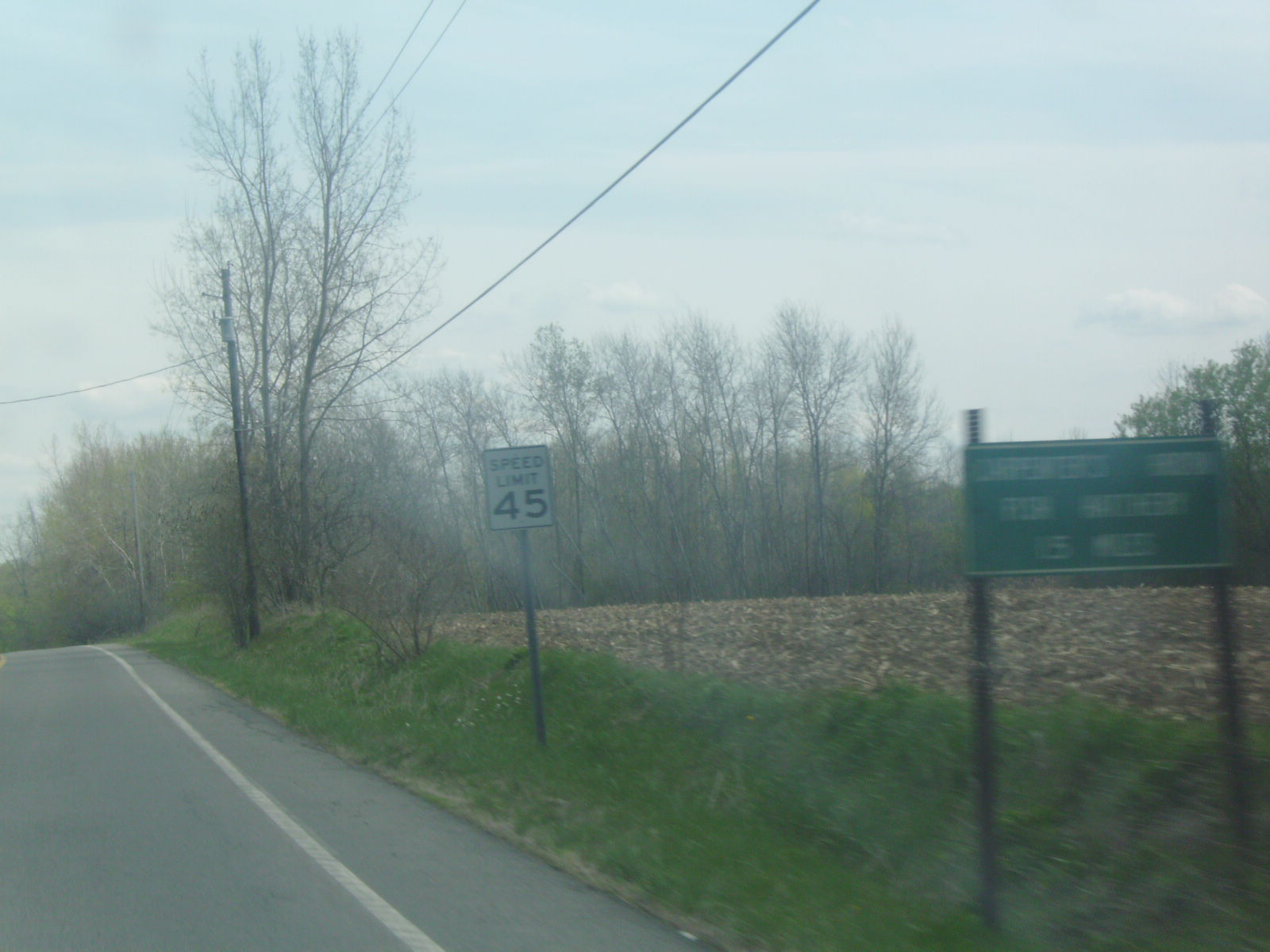 A sign on Onondaga County Route 107 (Halfway Road) for the Carpenter's Brook Fish Hatchery in Elbridge, New York.